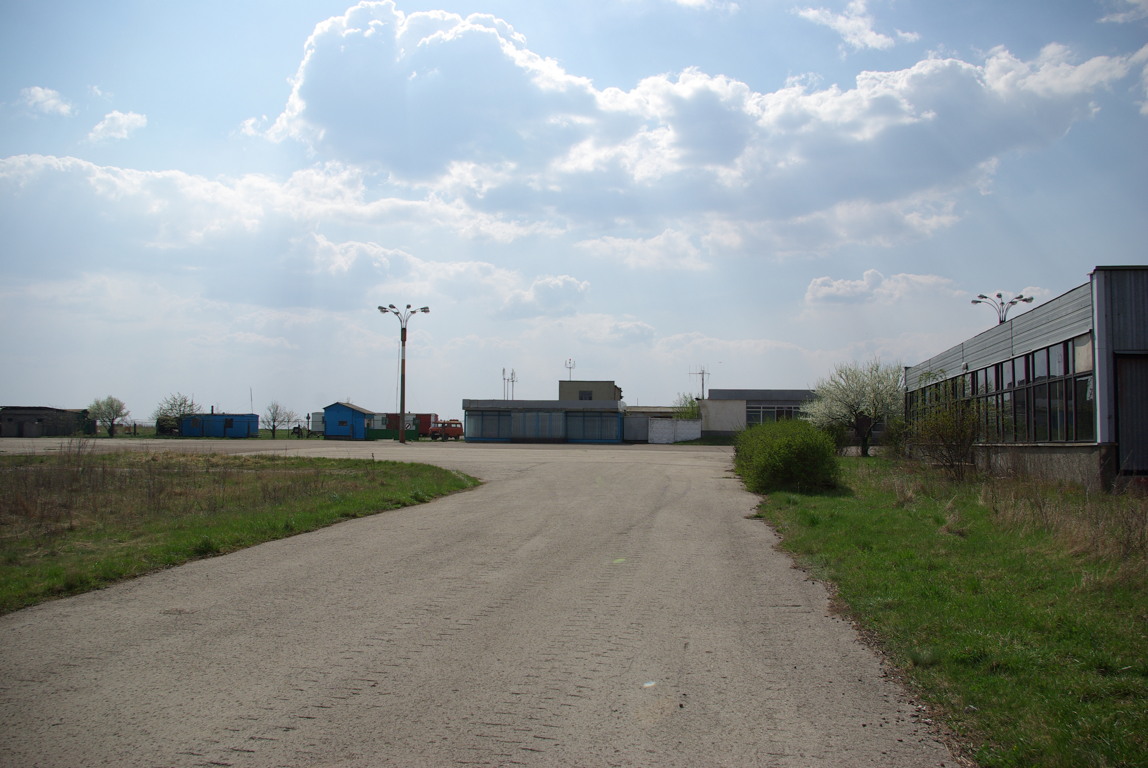 Bălţi International Airport, Moldova